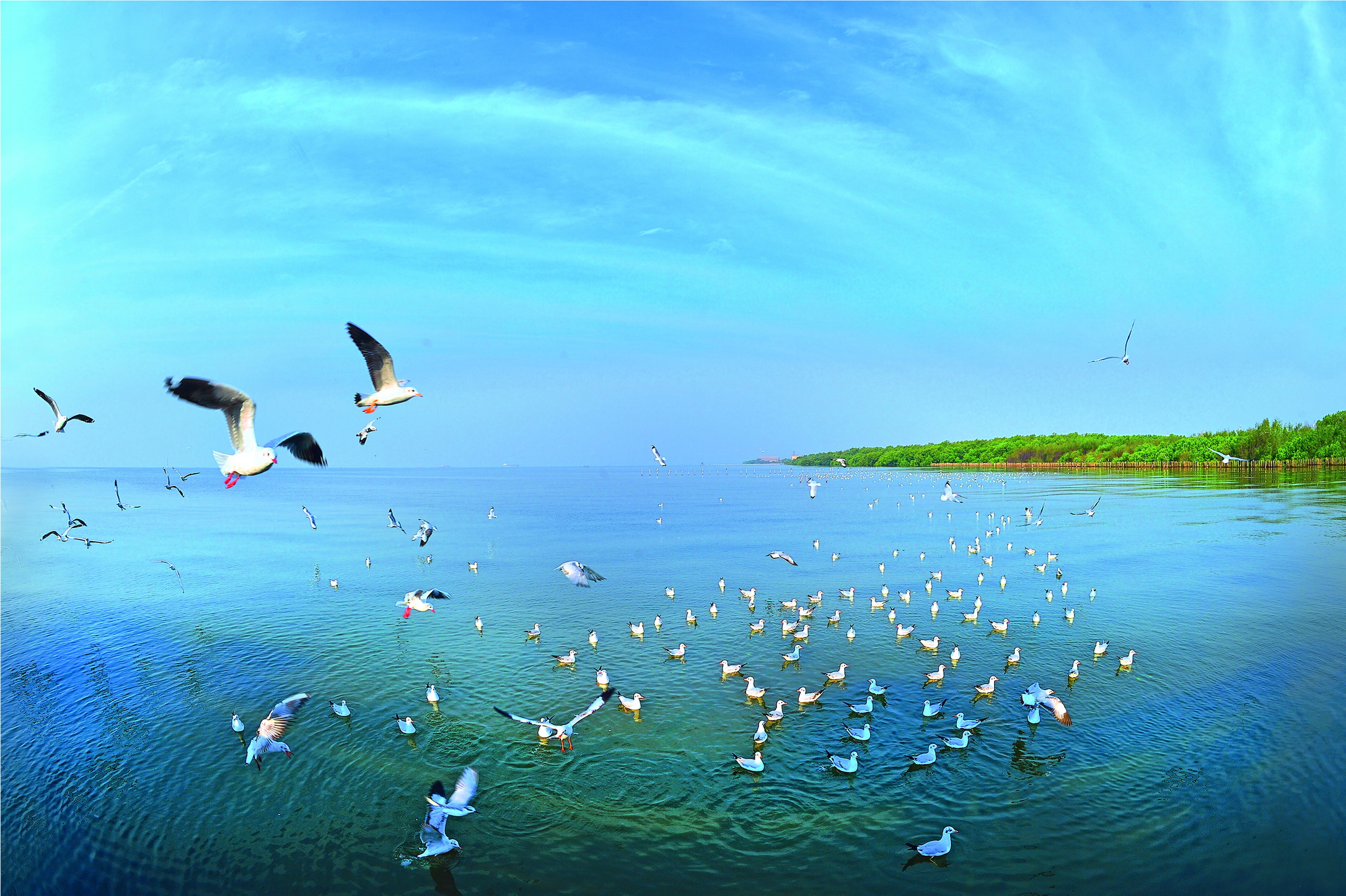 Bangpu Recreation Centre, or “Bangpu” in short, is situated at 164 Moo 2, Sukhumvit road, Bangpu Mai subdistrict, Muang district, SamutPrakan. Covering a total area of approximately 639 rai, it is on the Gulf of Thailand along the 2-kilometre coastline. The centre was established in 1939, during tenure of Field Marshall Por Phibunsongkhram, to provide rehabilitation facilities for injured soldiers.Within the centre are a ballroom, Nang Nuan cafeteria, Suk Ta bridge, SalaSukjai restaurant, all of which are administered by Recreation Facilities Division, Quater master Department, the Royal Thai Army. One of significant features of the centre is an unspoiled mangrove forest with biodiversity. The beach containing dark color mud is beneficial to marine creatures, e.g. shrimps, shells, crabs, and mudskippers.It is notable that each year in the winter season over 5,000 seagulls will migrate from Siberia. It is also a natural habitat of more than 200 bird species. Currently, the Royal Thai Army has established the Bangpu Nature Education Centre in commemoration of the 72nd birthday anniversary of H.M. Queen Sirikit.